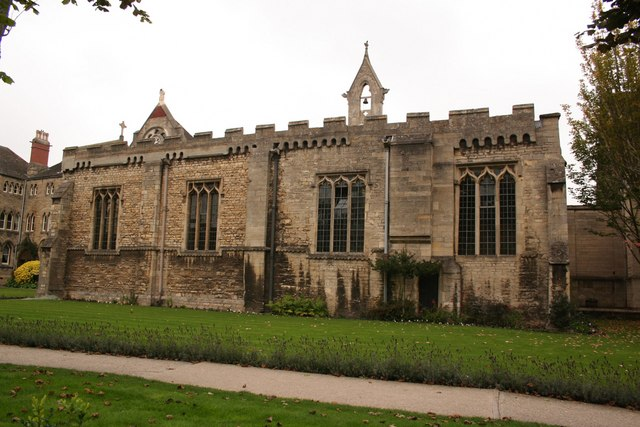 Old St Paul's, Stamford, Lincolnshire. Formerly St Paul's parish church, first mentioned in 1152. The parish merged with that of St George in 1548, and St Paul's became Stamford Free Grammar School by 1556. New school premises were built in 1874 and the building became the school chapel in 1930.